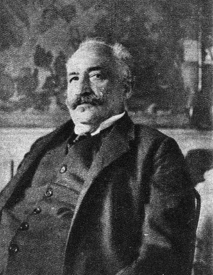 Ignaz Schnitzer, librettist of the Strauss-operetta The Gypsy Baron